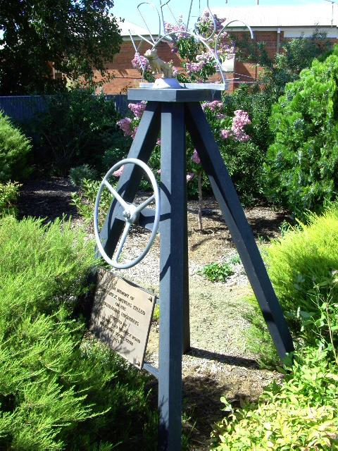 Original truck driver memorial, Tarcutta, New South Wales